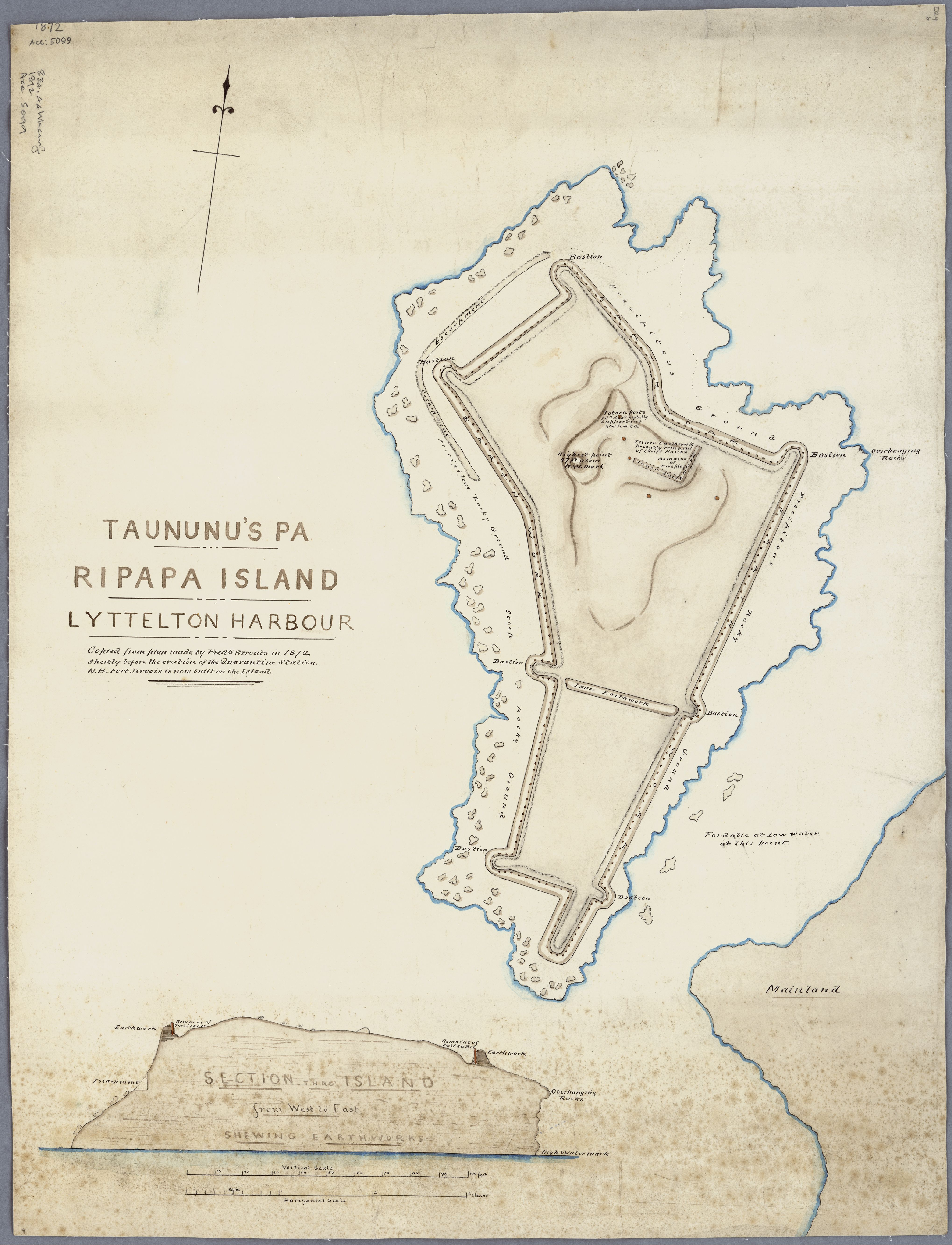 map of Ripapa Island, Lyttelton Harbour, New Zealand South Island East Coast